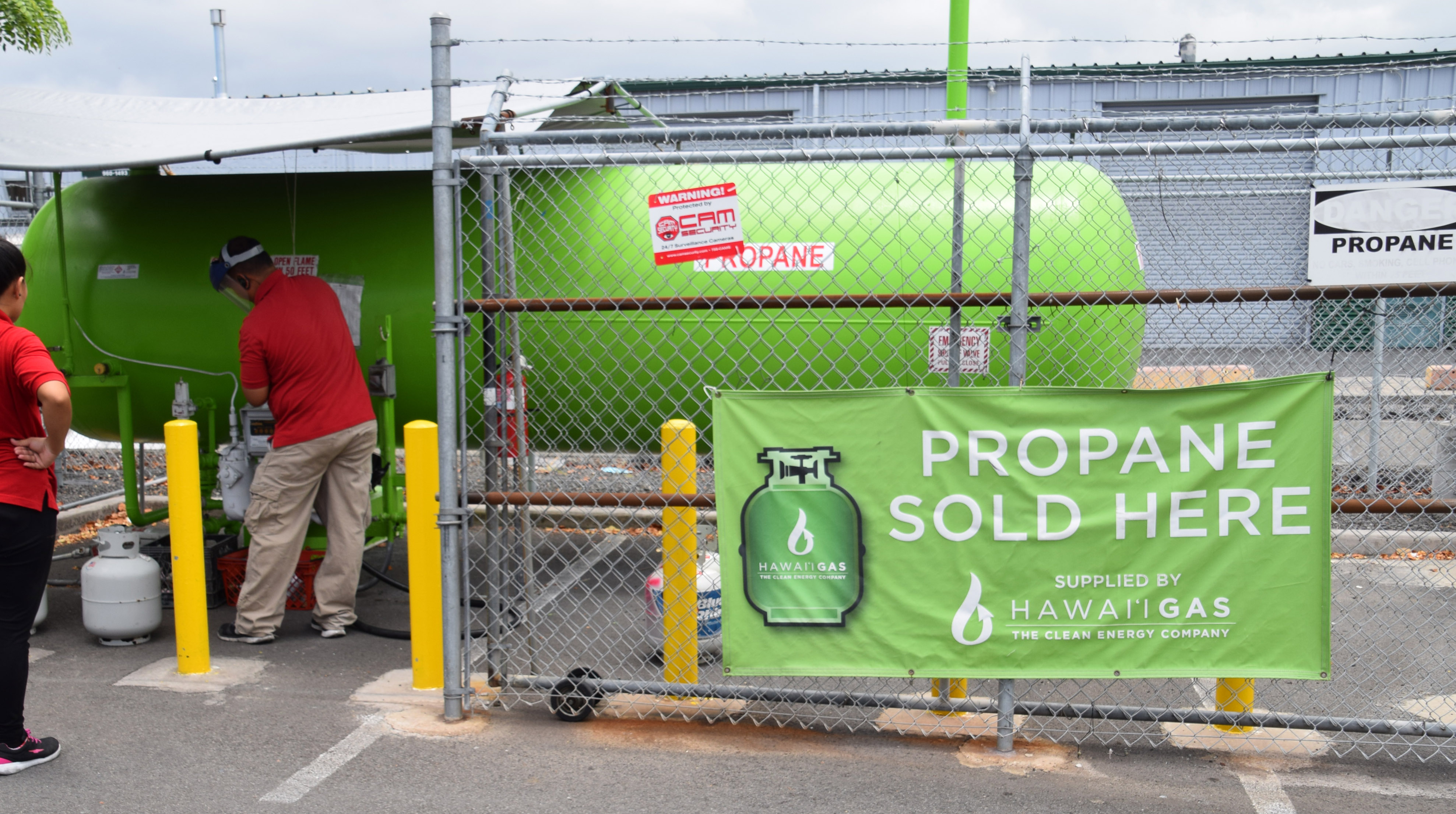 Getting propane gas from a Hawaii Gas dealer (Ace Hardware) on the Big Island of Hawaii, USA